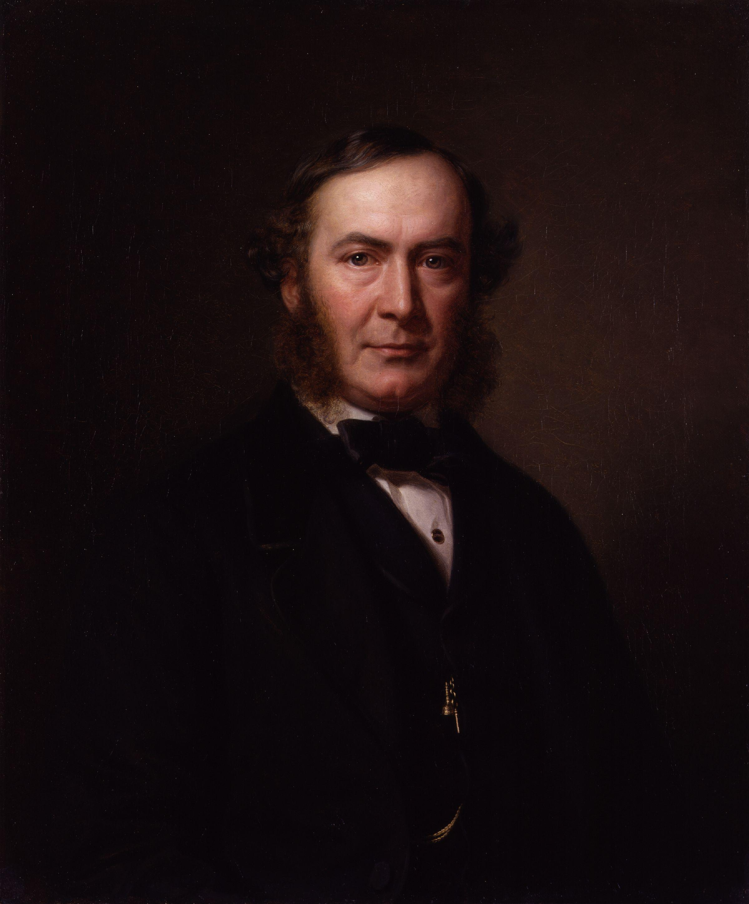 John Thadeus Delane, by Heinrich August Georg Schiött (died 1895), given to the National Portrait Gallery, London in 1911. All images in this batch have been confirmed as author died before 1939 according to the official death date listed by the NPG.